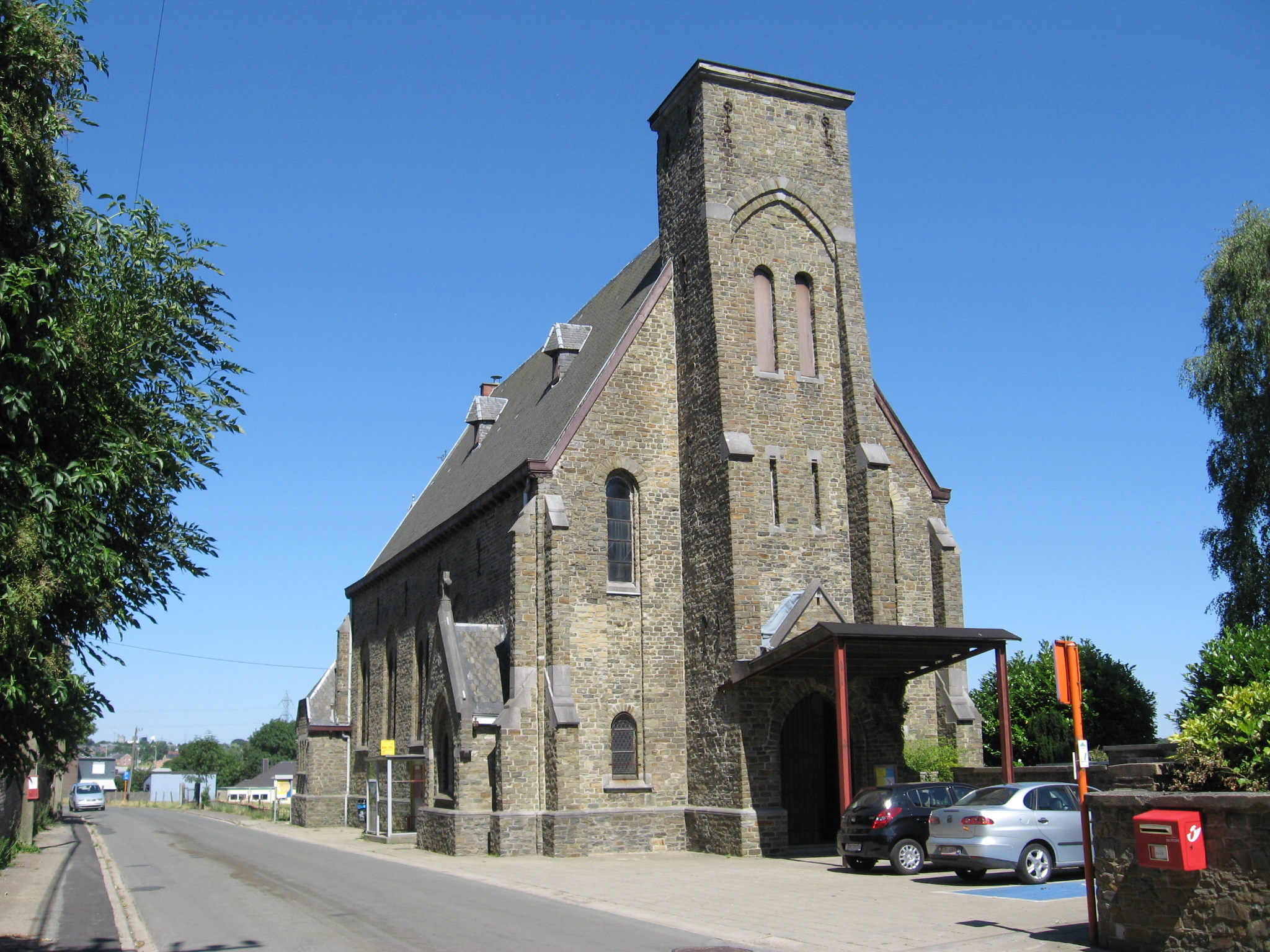 Church of Saint Anthony in José, Battice, Herve, Liège, Belgium